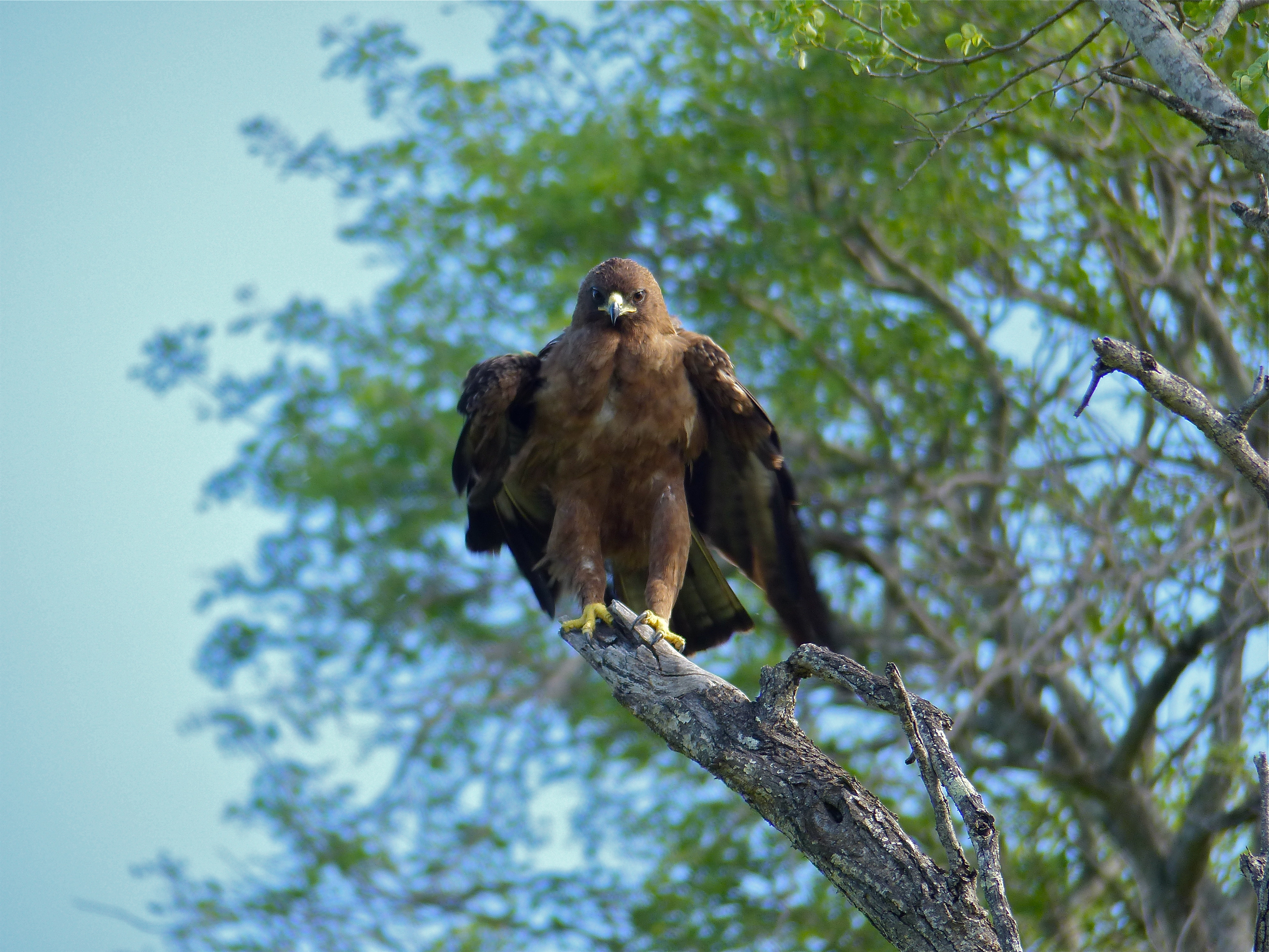 S30 Road, North of Lower Sabie, Kruger NP, SOUTH AFRICA